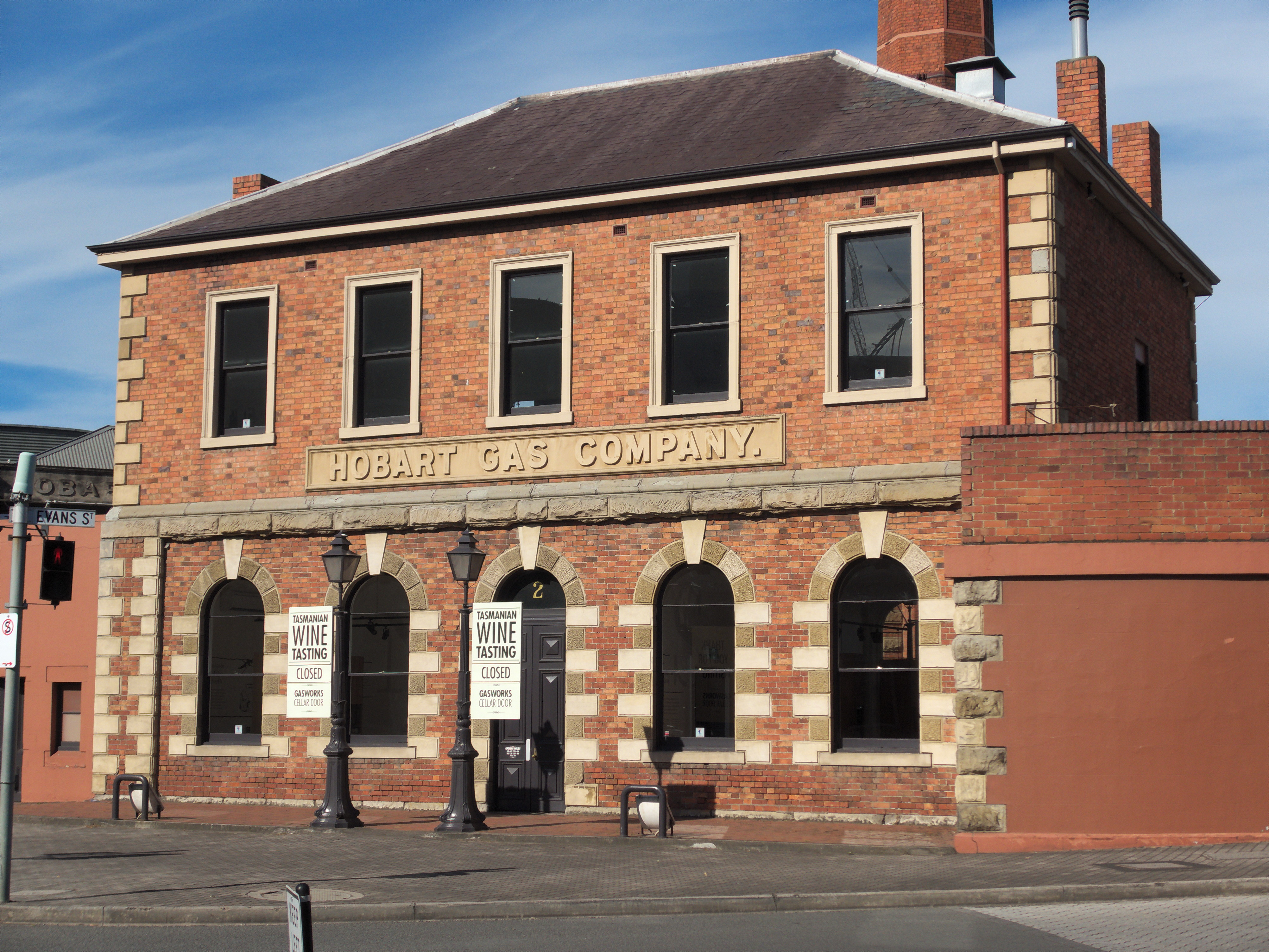 Hobart gasworks seen from Macquarie Street.